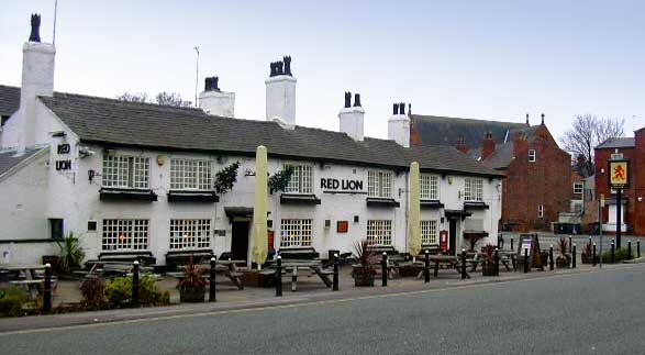 The Red Lion public house, Withington, Manchester, UK